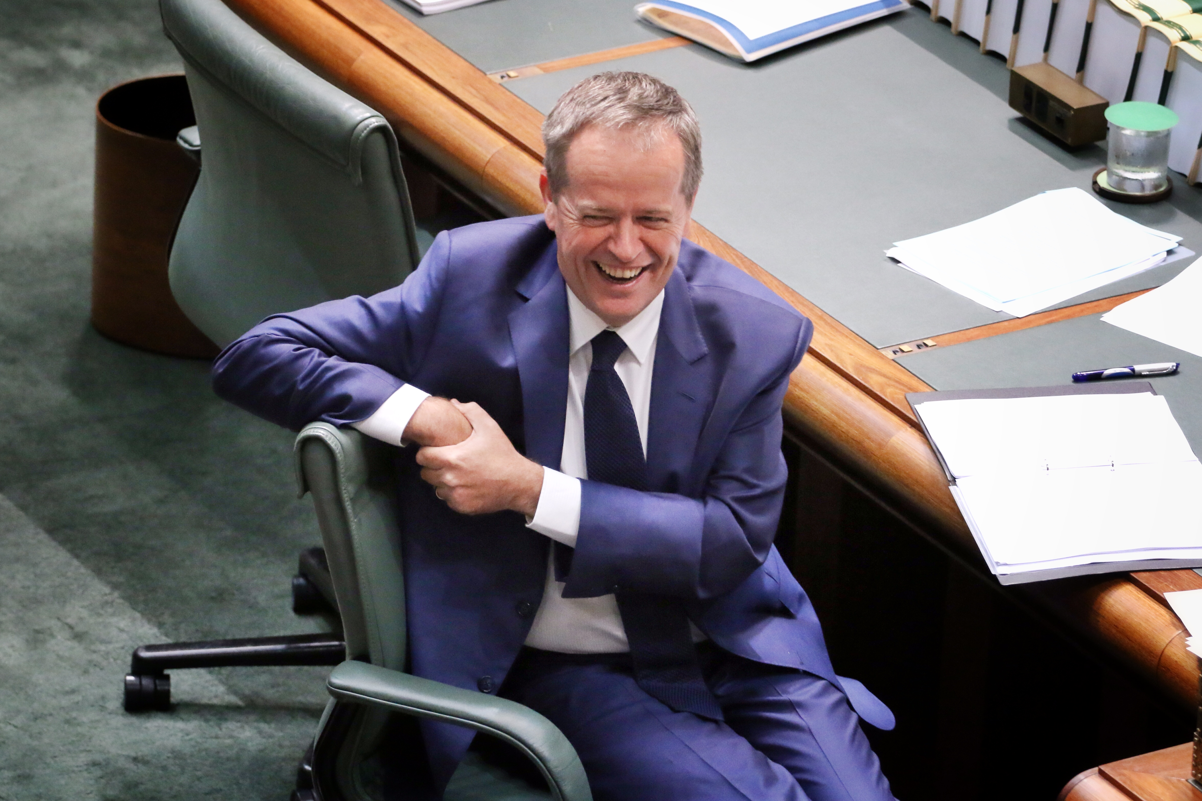 Opposition Leader Bill Shorten seated in the House of Representatives in February 2016